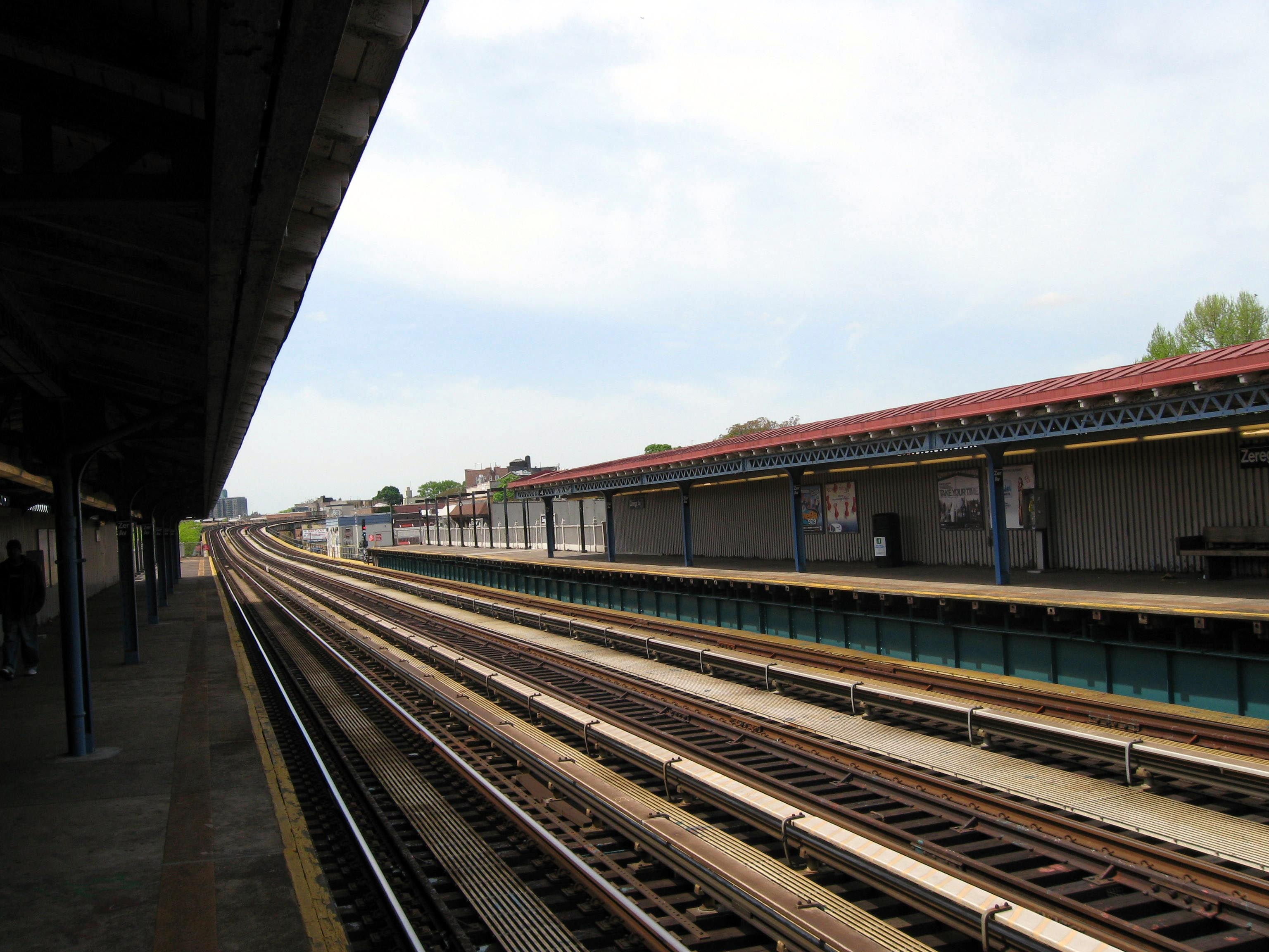 Looking west along the 6 line from southern platform of Zerega Avenue (IRT Pelham Line) just before Noon. See File:Zeregastairjeh.jpg for street stair.